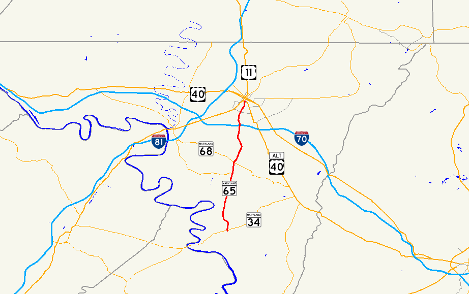 Map of Maryland Route 65